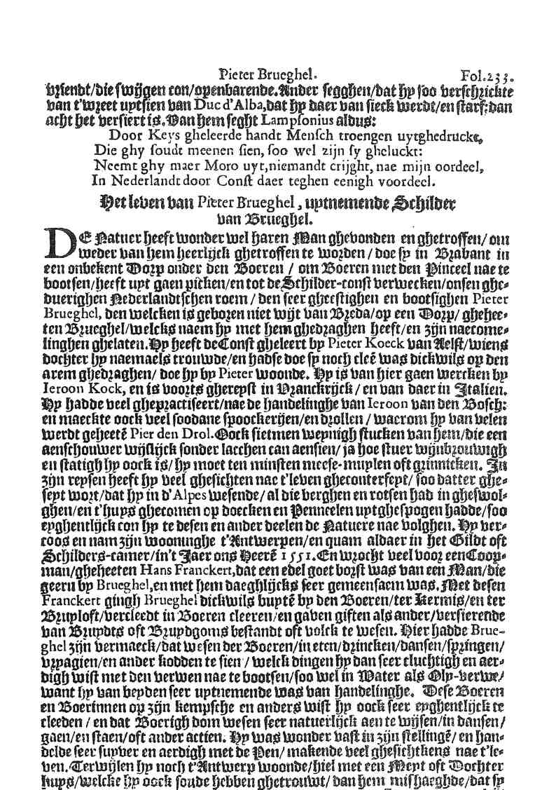 Schilder-Boeck fol 233 recto